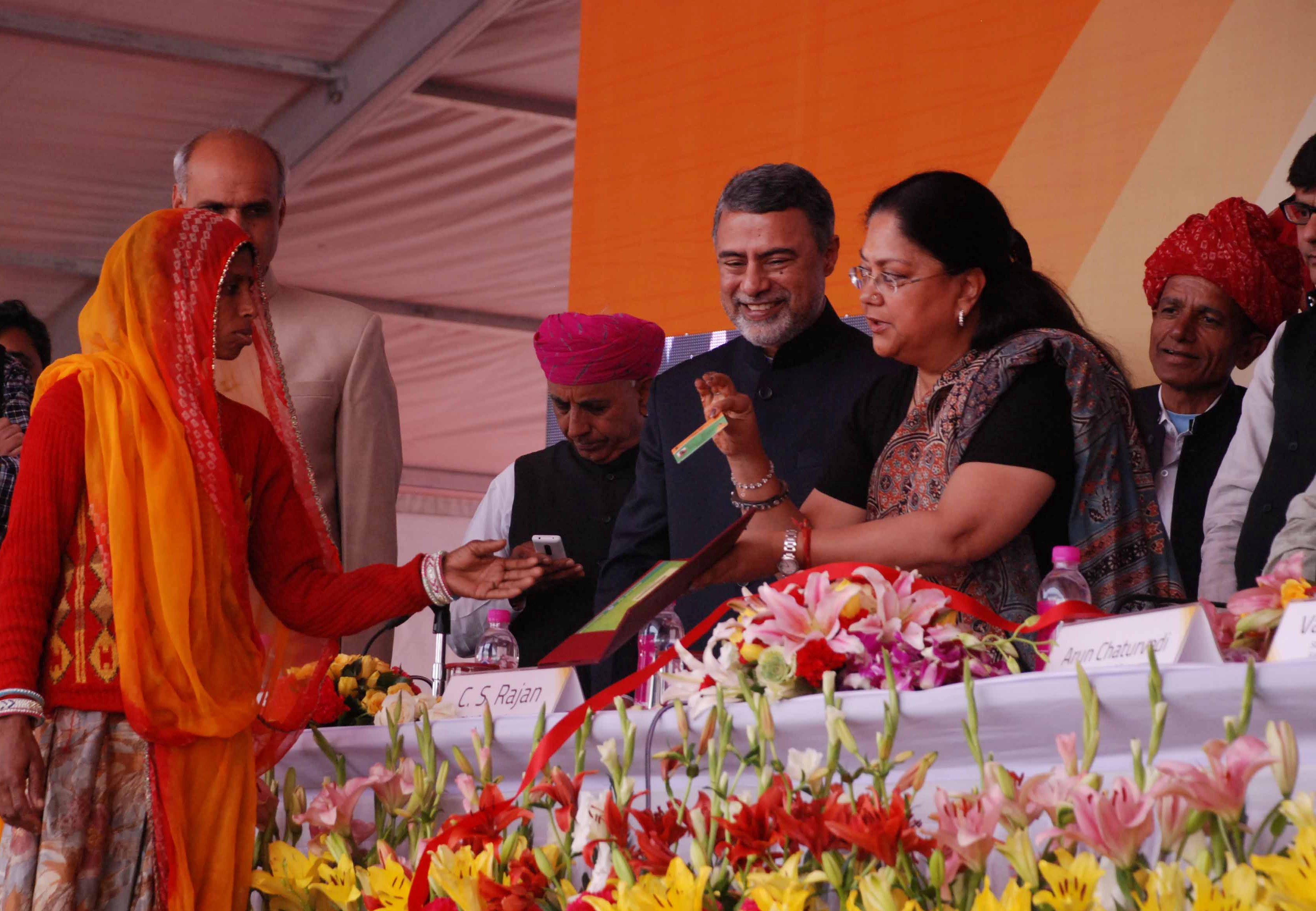 CM Vasundhara Raje Distributing Bhamashah Card